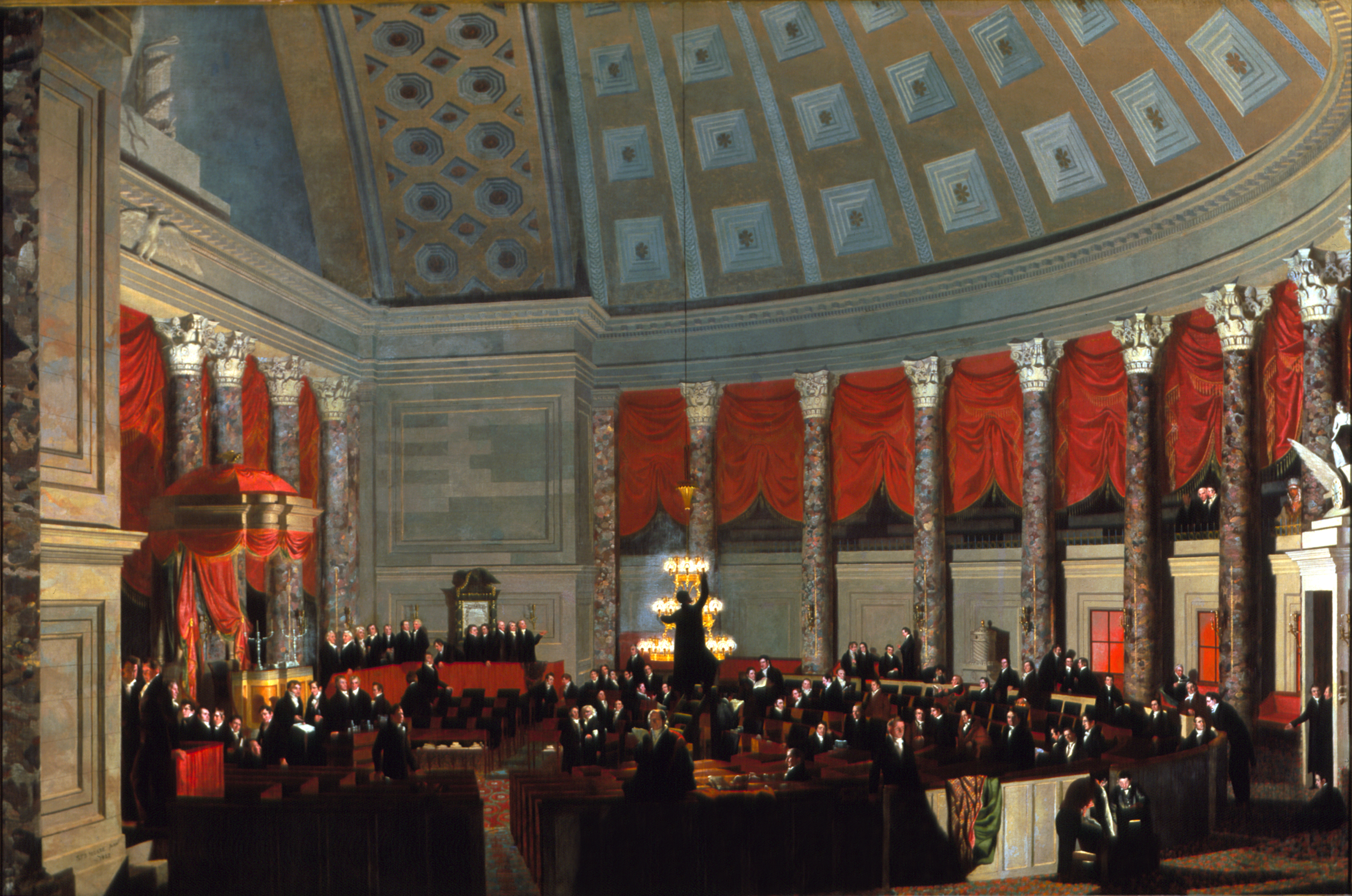 Samuel F.B. Morse's 1823 painting of an evening session of the United States House of Representatives in the old Hall of the House, now national Statuary Hall. Collection of the Corcoran Museum of Art. color adjustments made in Photoshop.